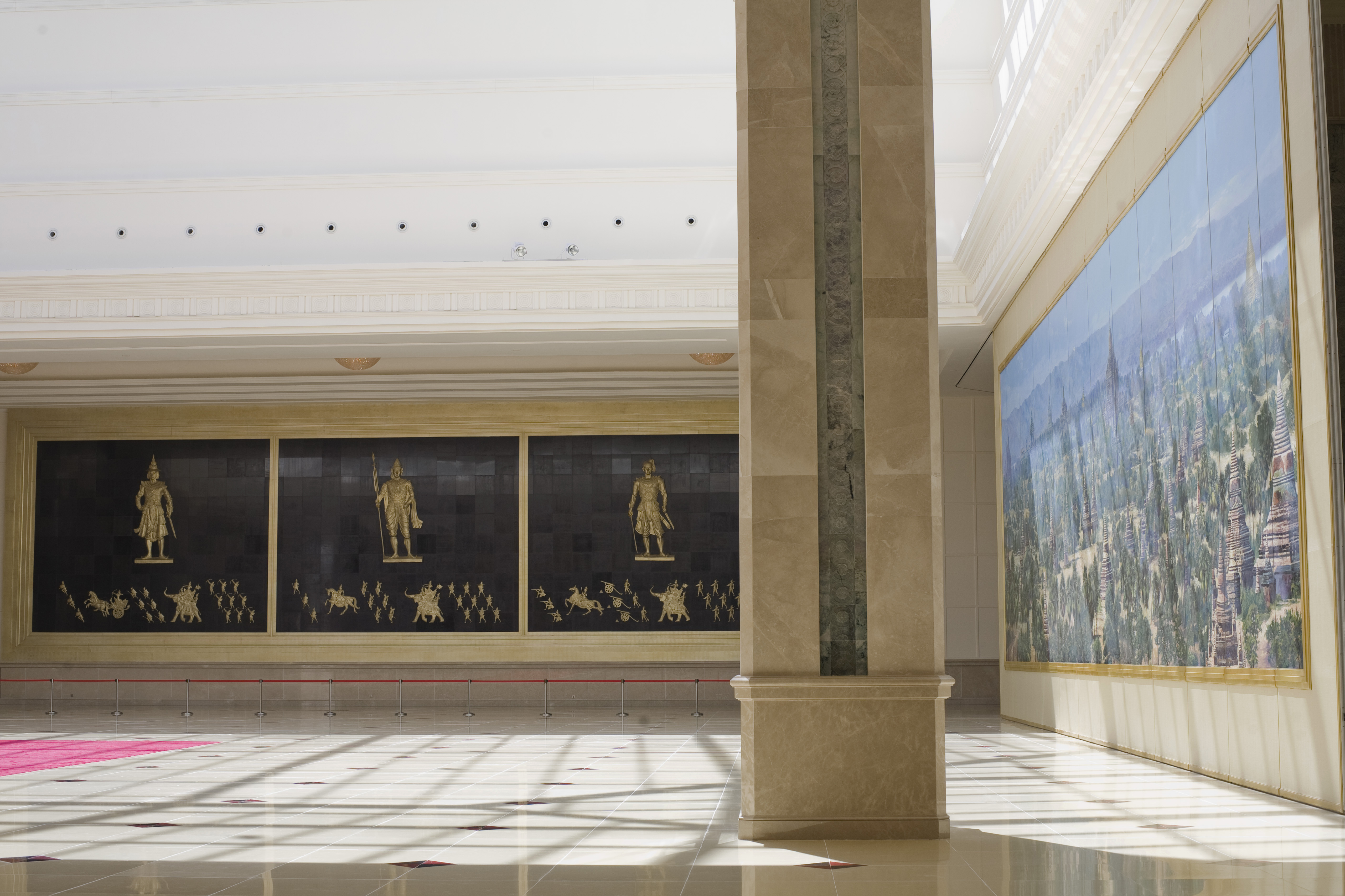 Lobby of Zeyathiri Beikman in Naypyidaw, Myanmar (Burma)